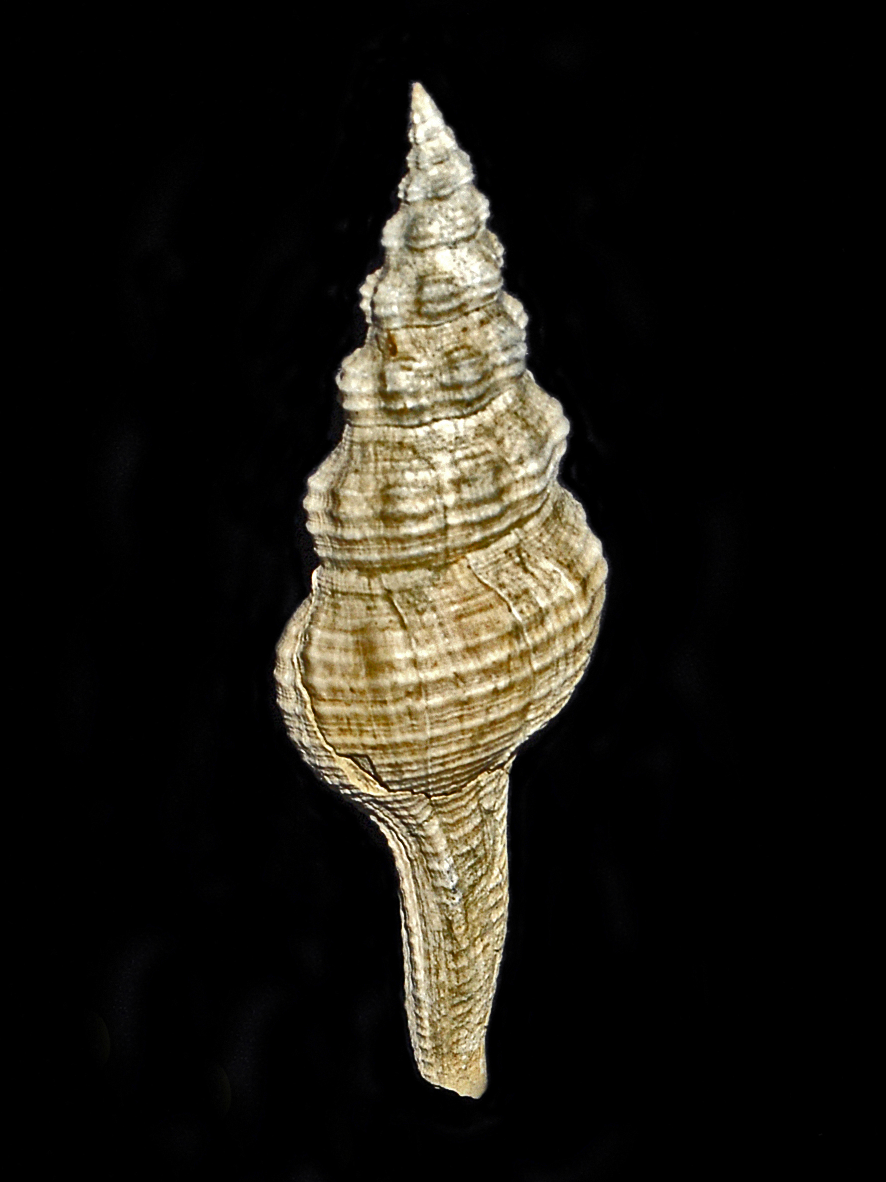 Fossil shell of Fusinus longoroster from Pliocene of Italy, on display at the Museo Paleontologico, Asti